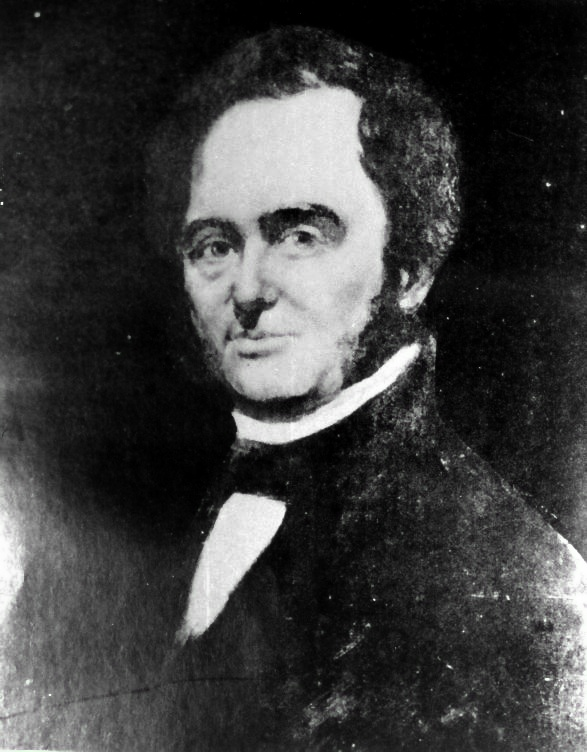 Portrait of Moses Austin made before his death in 1821.